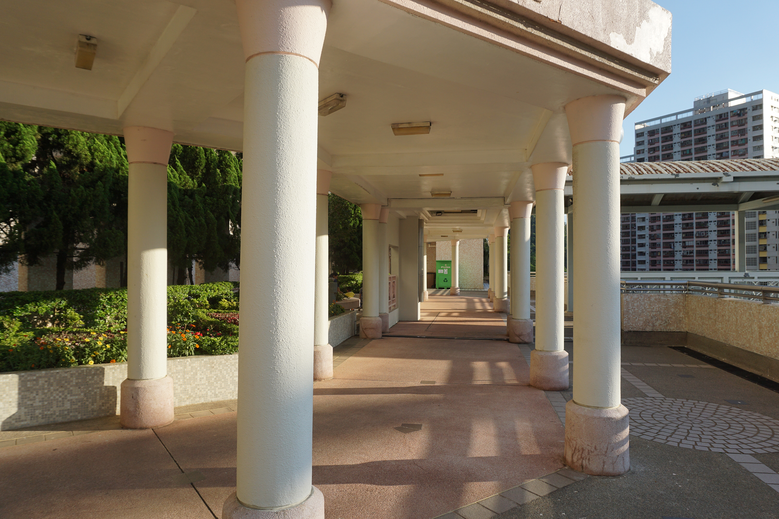 Yi Fung Court in Kwai Chung, Hong Kong.